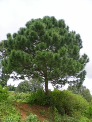 Pinus latteri, Aungban, Shan State, Burma, 20°39'40"N 96°35'16"E, 1400 m